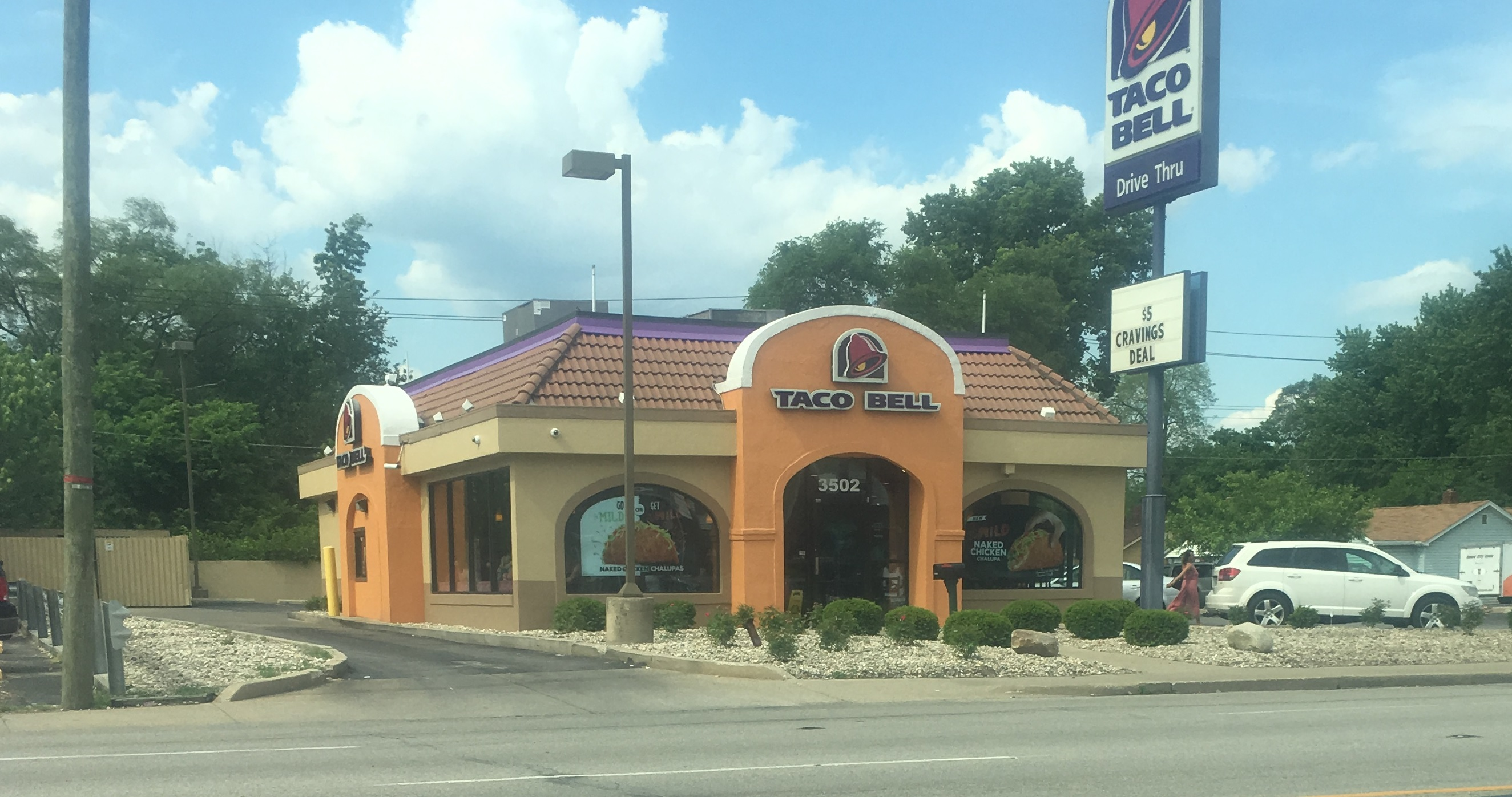 Taco bell restaurant at 3502 W. 16th Street in Indianapolis, Indiana.